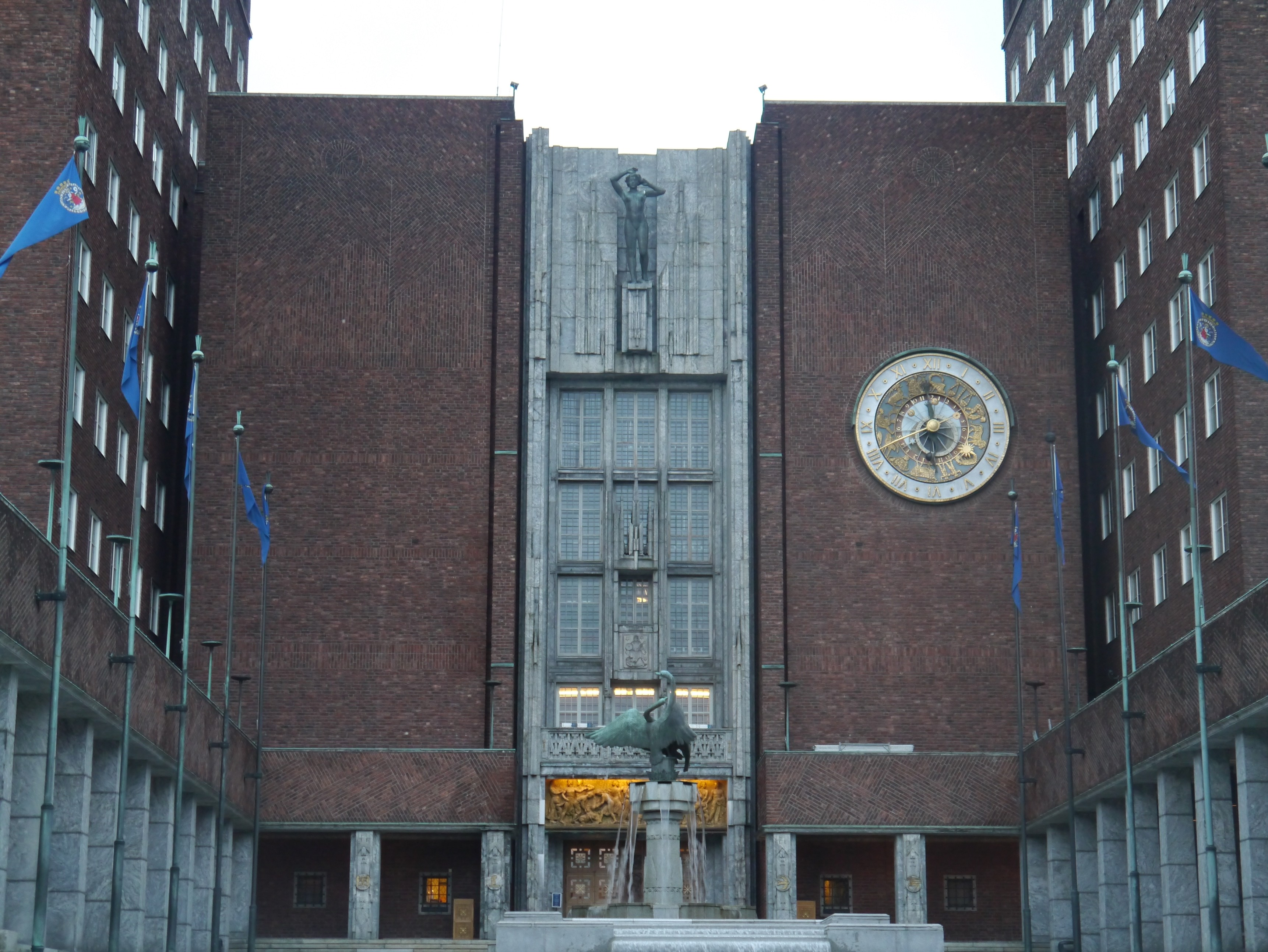 City side of the City Hall, Oslo, Southern Norway